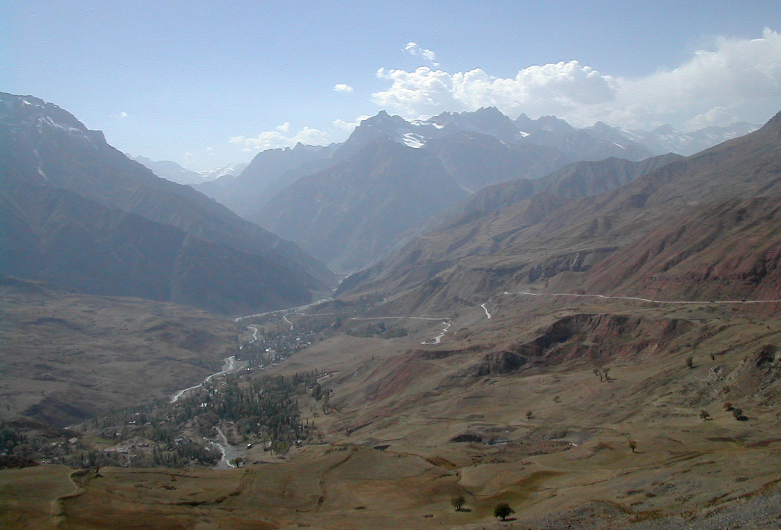 Village and M34 highway north of Dushanbe, Tajikistan Тоҷикӣ: Ноҳияи Варзоб, Тоҷикистон